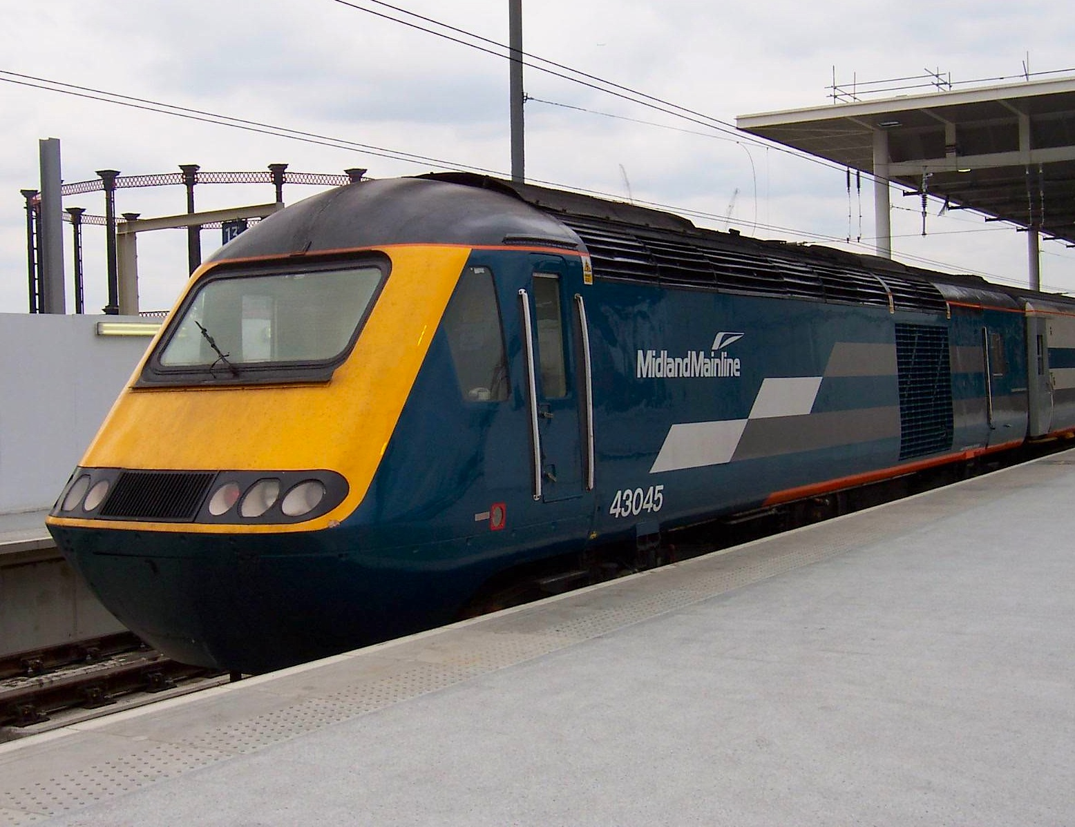 MidlandMainline Class 43 Power Car No. 43045 at London St. Pancras